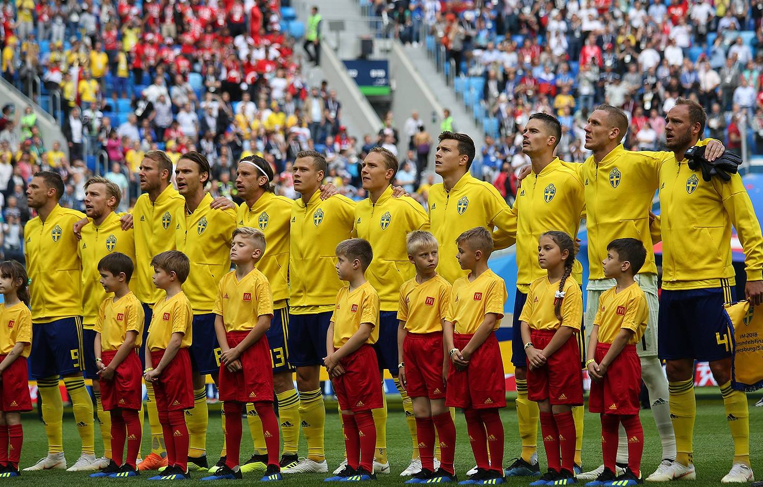 2018 FIFA World Cup Match 55, Sweden v Switzerland